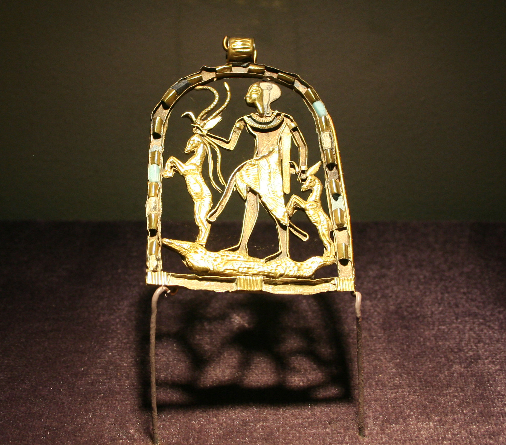 Pectoral with a depiction of the god Shed. 18th-20th dynasty. Gold. H 6.9 cm. IN 5922. Roemer und Pelizaeus Museum, Hildesheim